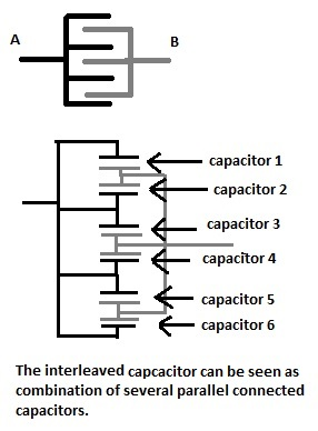 The interleaved capacitor can be seen as combination of several parallel connected capacitors.